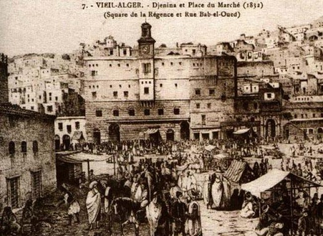 Algiers 1832 - ancient slaves market. A post card of Algiers